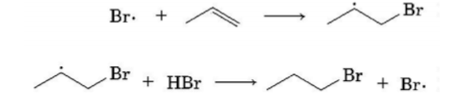 fdsafas